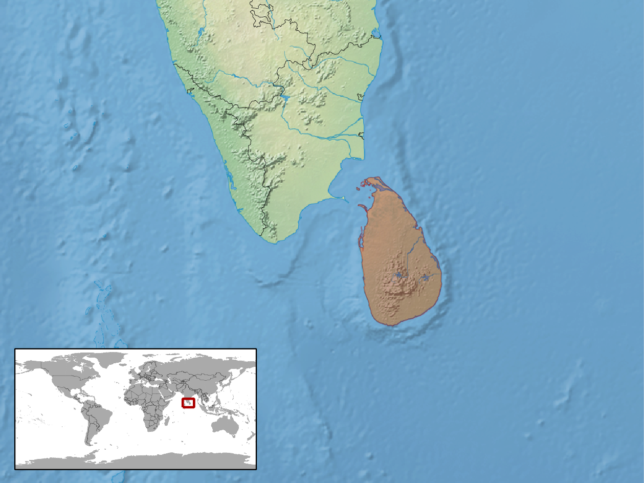 geographic distribution of Cnemaspis tropidogaster (Native: India; Sri Lanka)